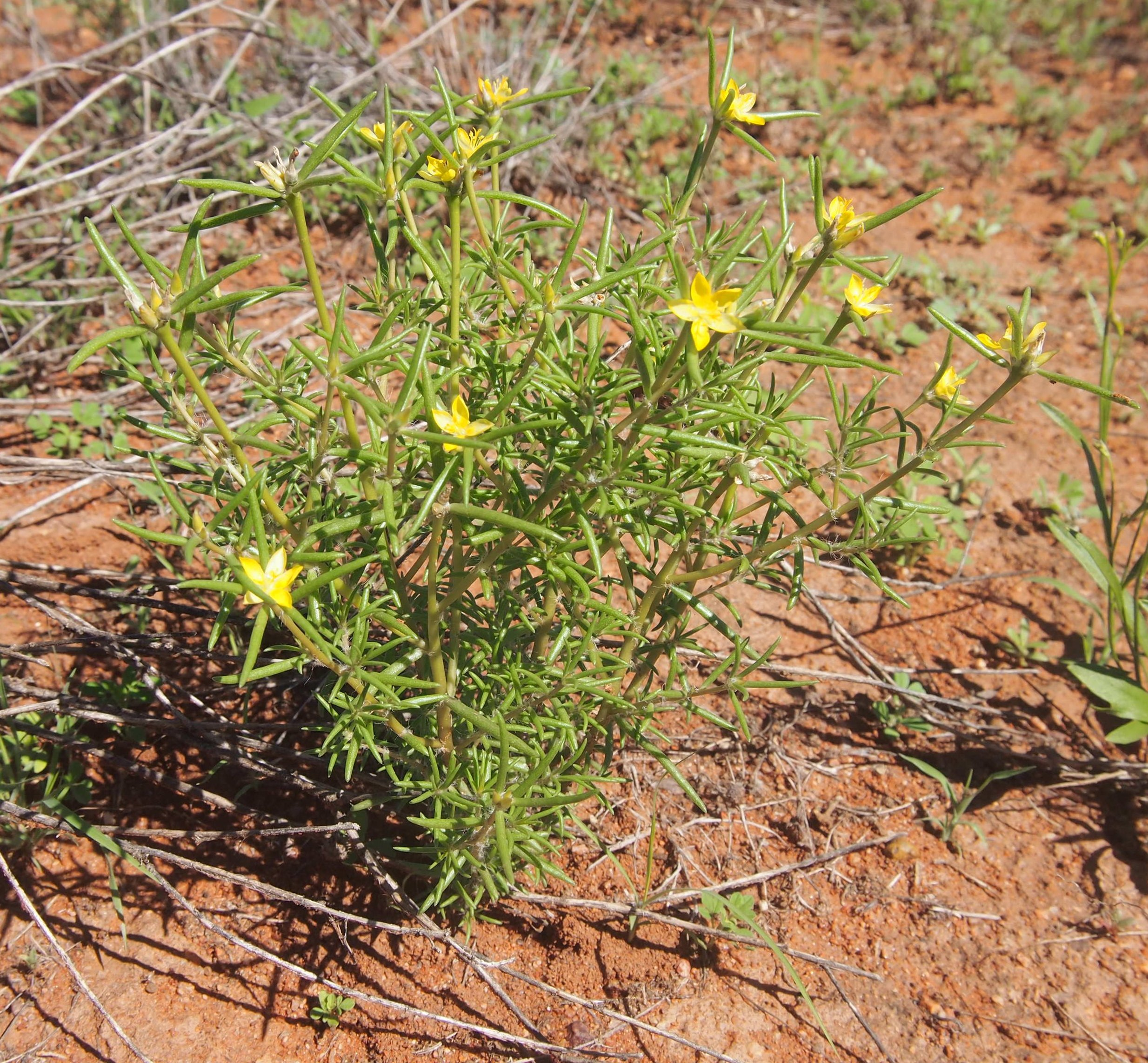 Portulaca filifolia